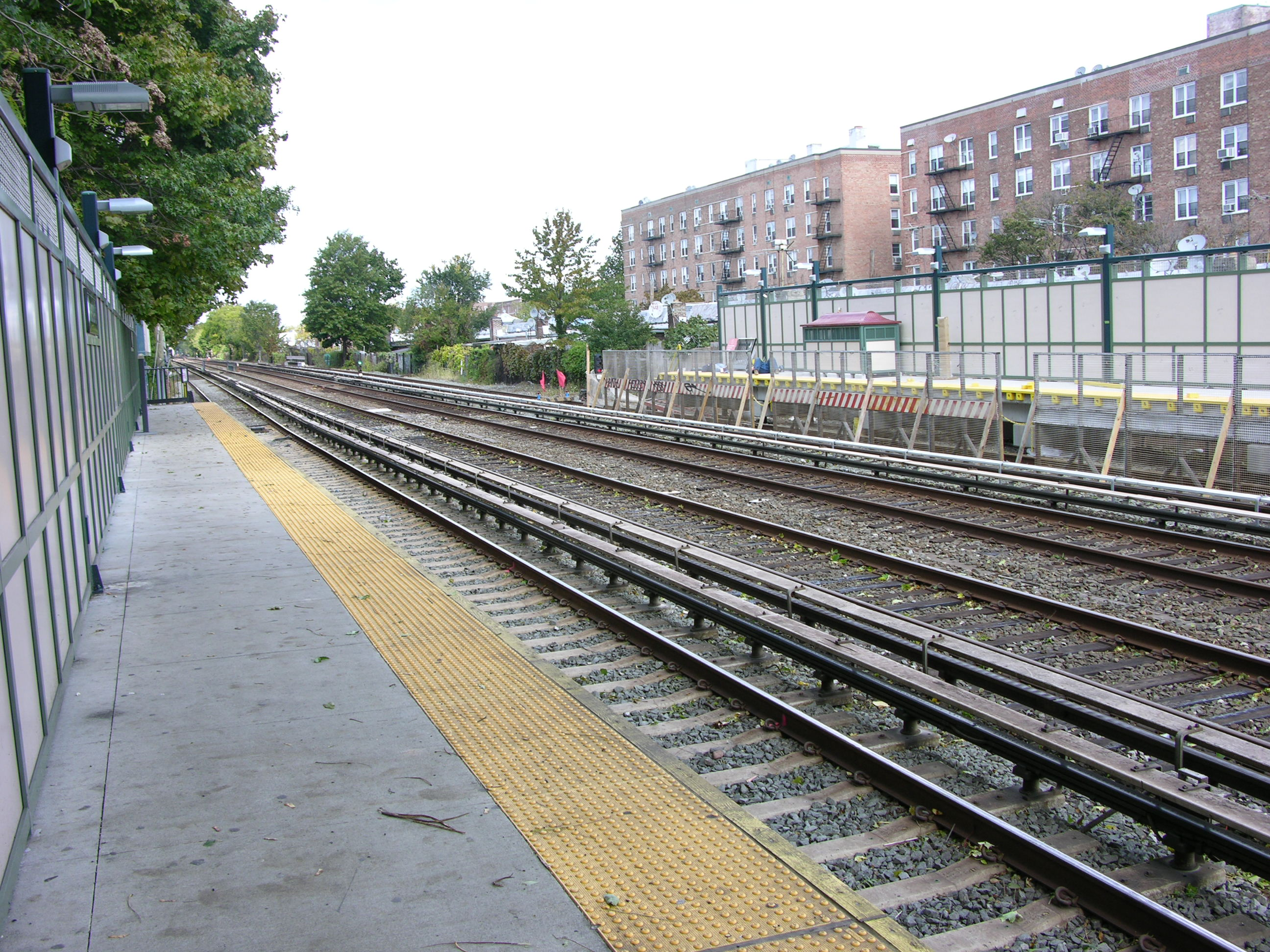 Avenue U station on the BMT Brighton Line of the New York City Subway.